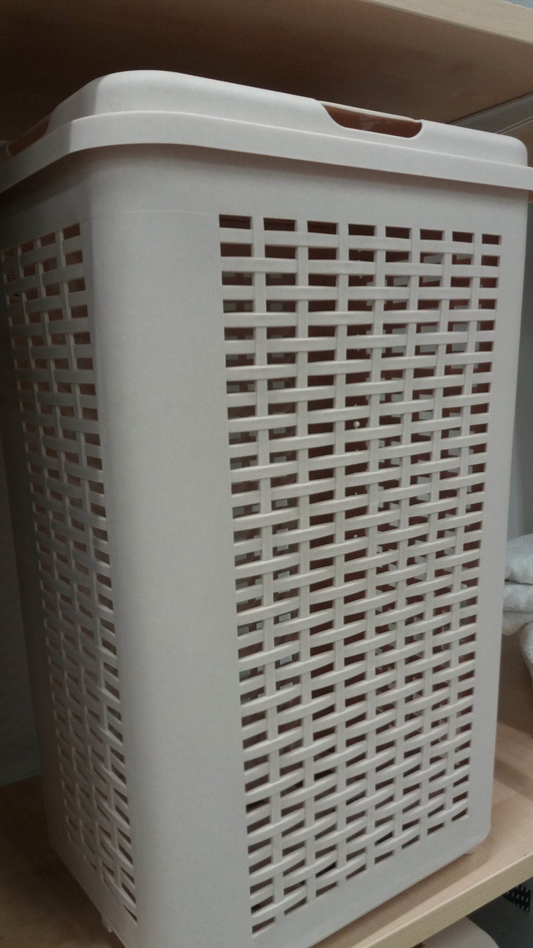 Laundry basket made of plastic material